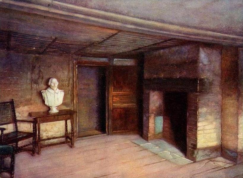 Picture postcard titled "The room in which Shakespeare was born" printed by Raphael Tuck & Sons in 1903